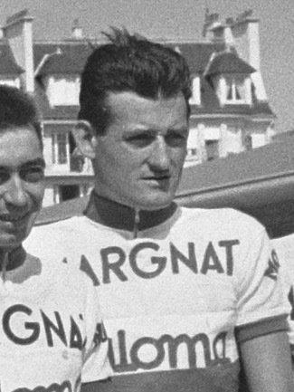 The Margnat-Paloma team at the 1964 Tour de France: Jean Anastasi, Federico Bahamontes, André Darrigade, Jean Graczyk, Esteban Martín, Claude Mattio, Jean Milesi, Joseph Novales, Eddy Pauwels and José Segú.